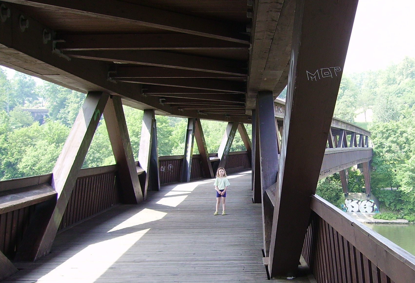 bridge in Bad Cannstatt, part of Stuttgart, Germany